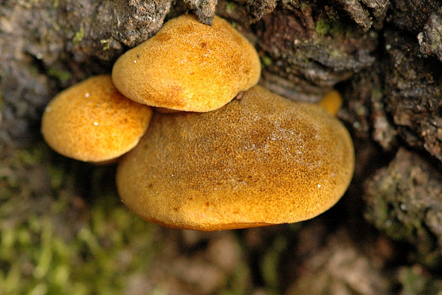 Panellus serotinus from Commanster, Belgium. The determination of the species shown in this picture has been verified.